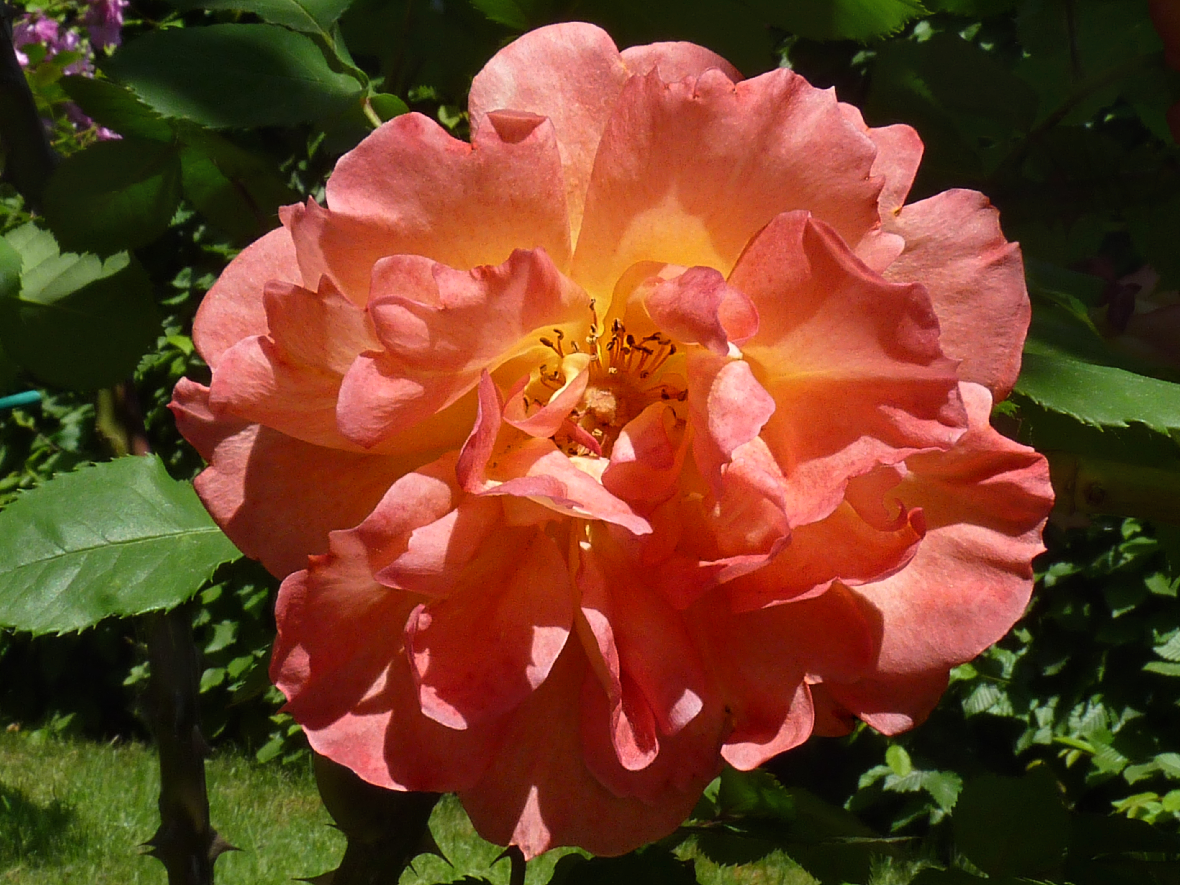 Rosa 'Arielle Dombasle' (Meilland, 1991), in the international rose garden of Kortrijk, Belgium.